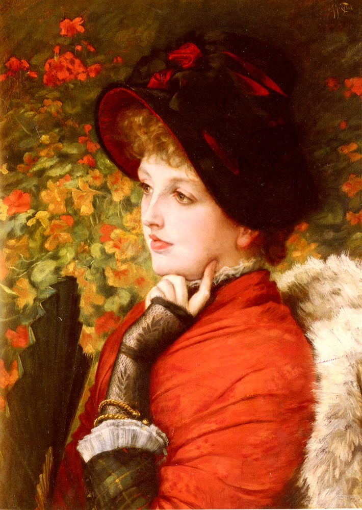 Portrait of Kathleen Newton